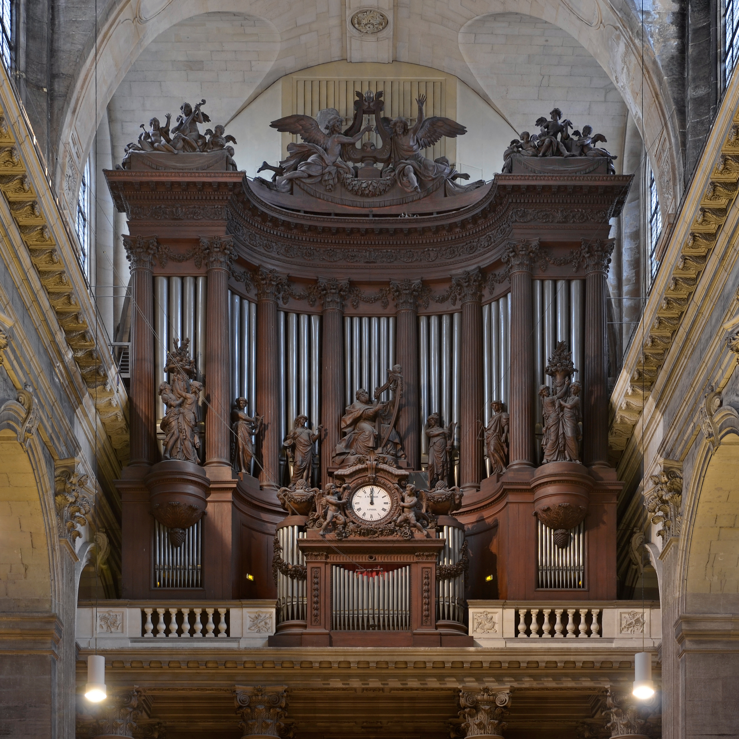 The Great Organ of Saint-Sulpice church by Aristide Cavaillé-Coll and Jean Chalgrin - Paris, France.